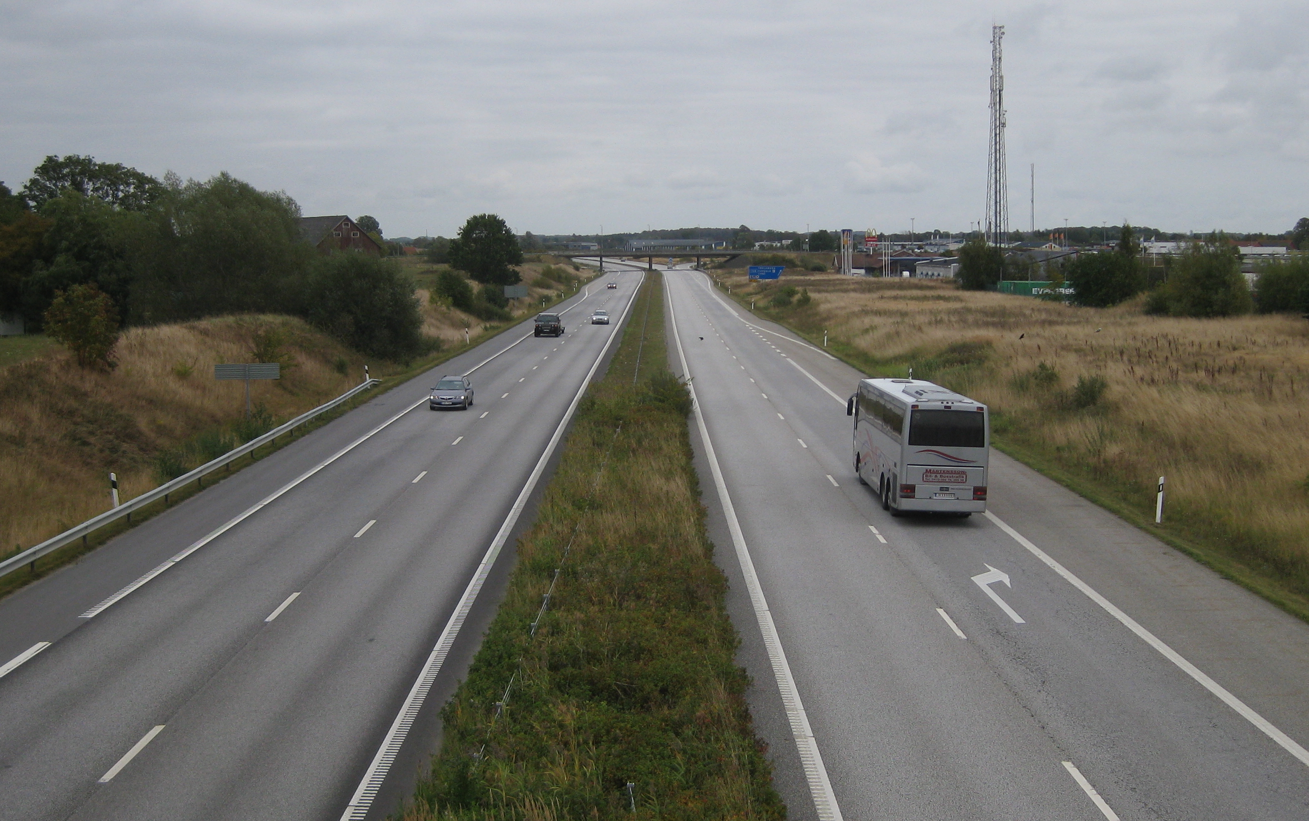 E65 Motorway at Svedala